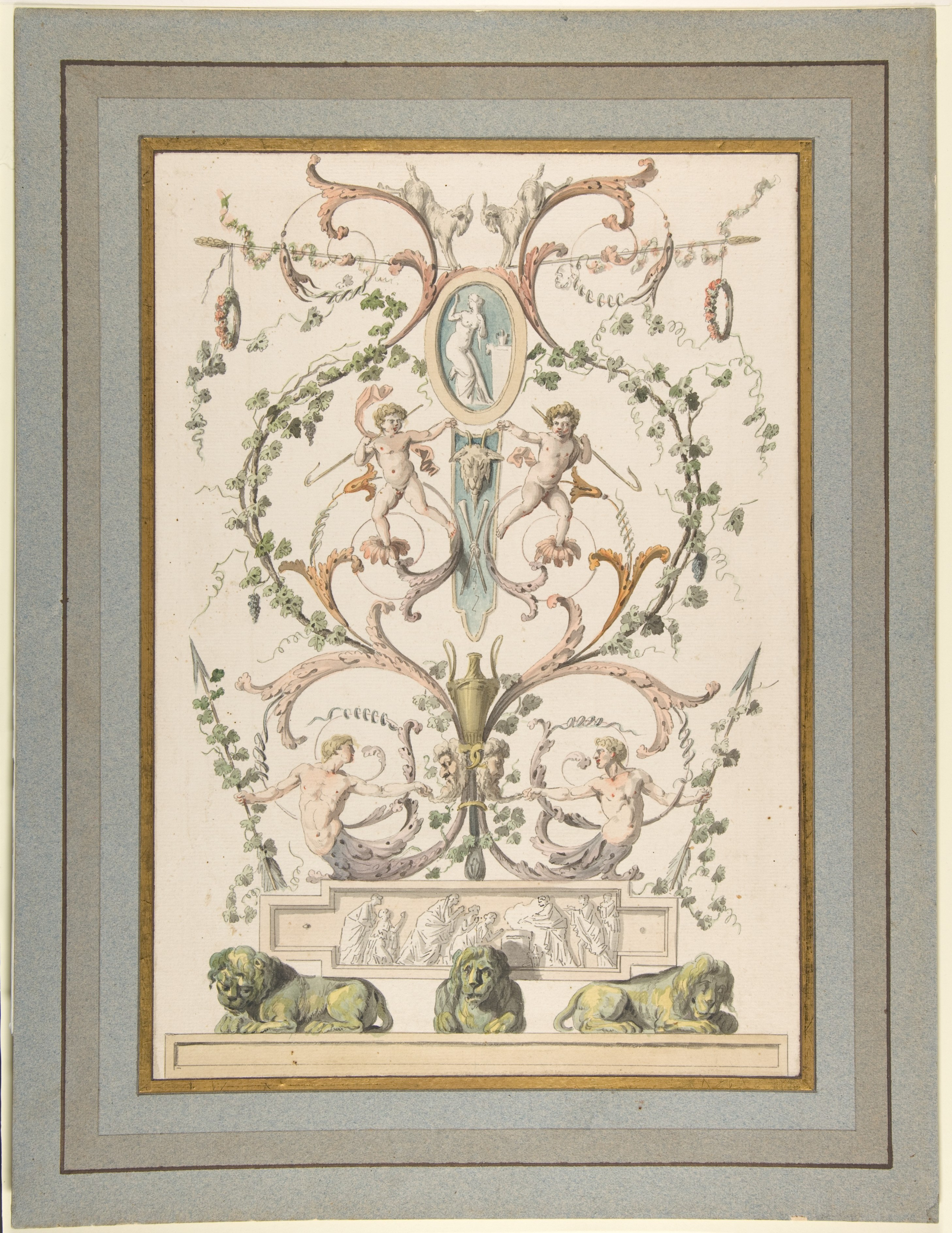 Drawing Collection Ornament & Architecture; Drawings